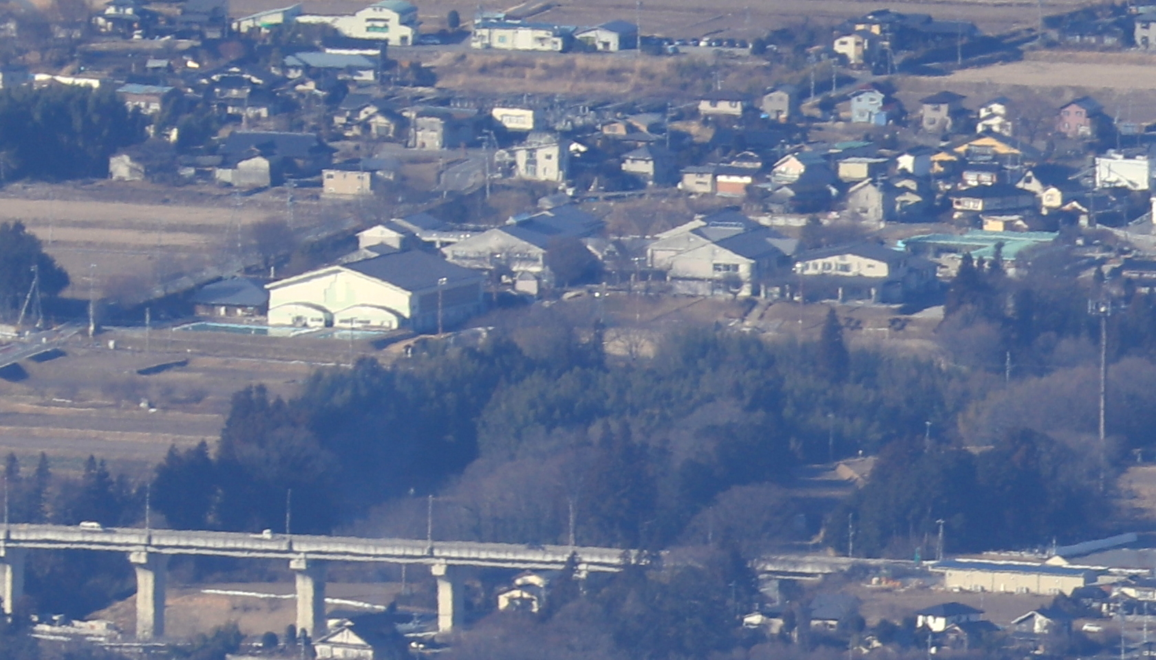 Komagane City Akahominami Elementary school seen from Mount Tokura in Komagane, Nagano Prefecture, Japan. Canon EOS Kiss X9